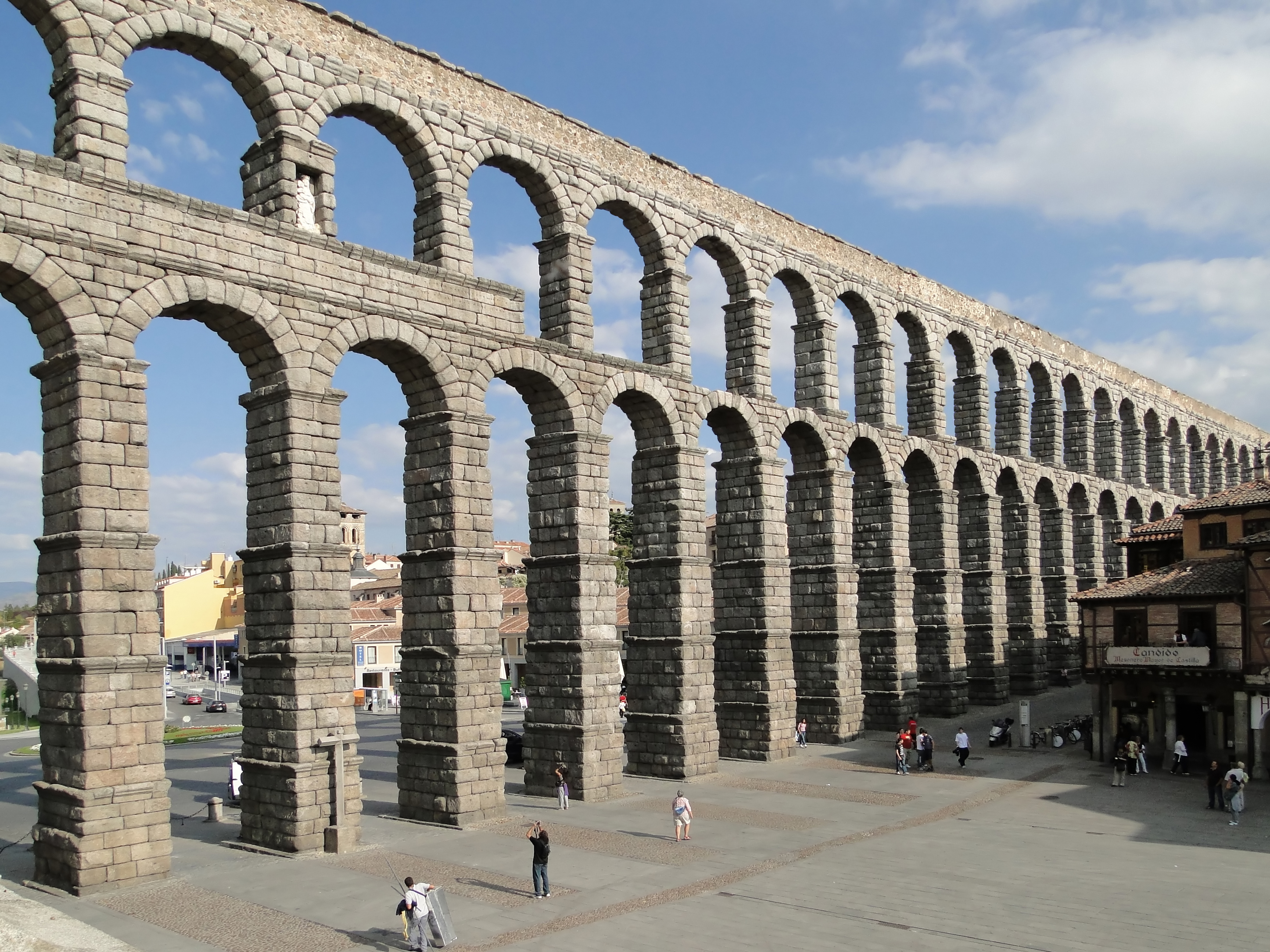 Aqueduct of Segovia, located in the city of Segovia, Spain.